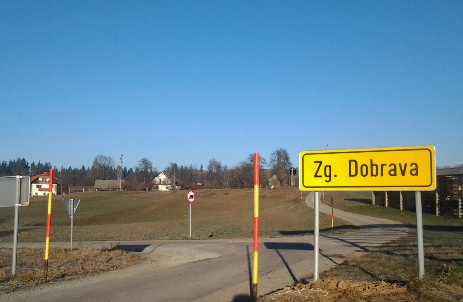 Zgornja Dobrava s krajevno tablo